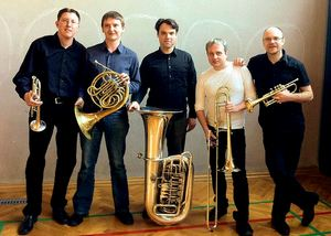 Simply Brass Quintet in Rijeka 2012